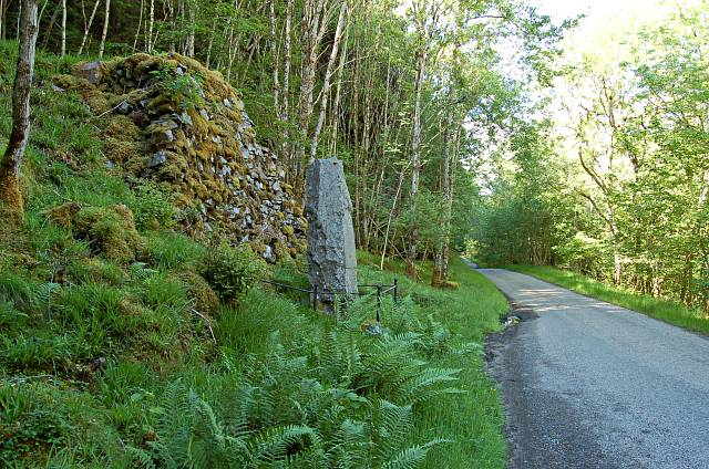 James Bryce monument. In memory of James Bryce LLB FGS FRSG A distinguished geologist born near Coleraine Ireland 1806? Killed opposite this spot while in pursuit of his favourite science July 11 1877. Erected by scientific friends, Edinburgh Glasgow and Inverness